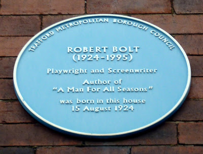 Robert Bolt plaque